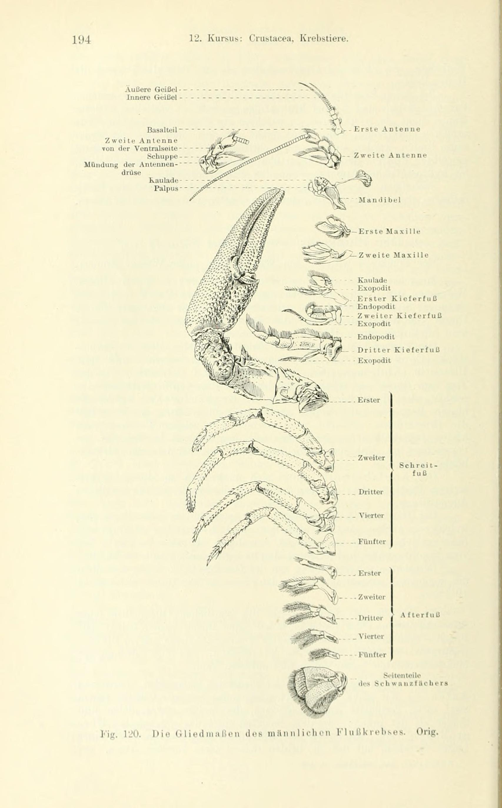 All appendages of a male European crayfish (Astacus astacus).